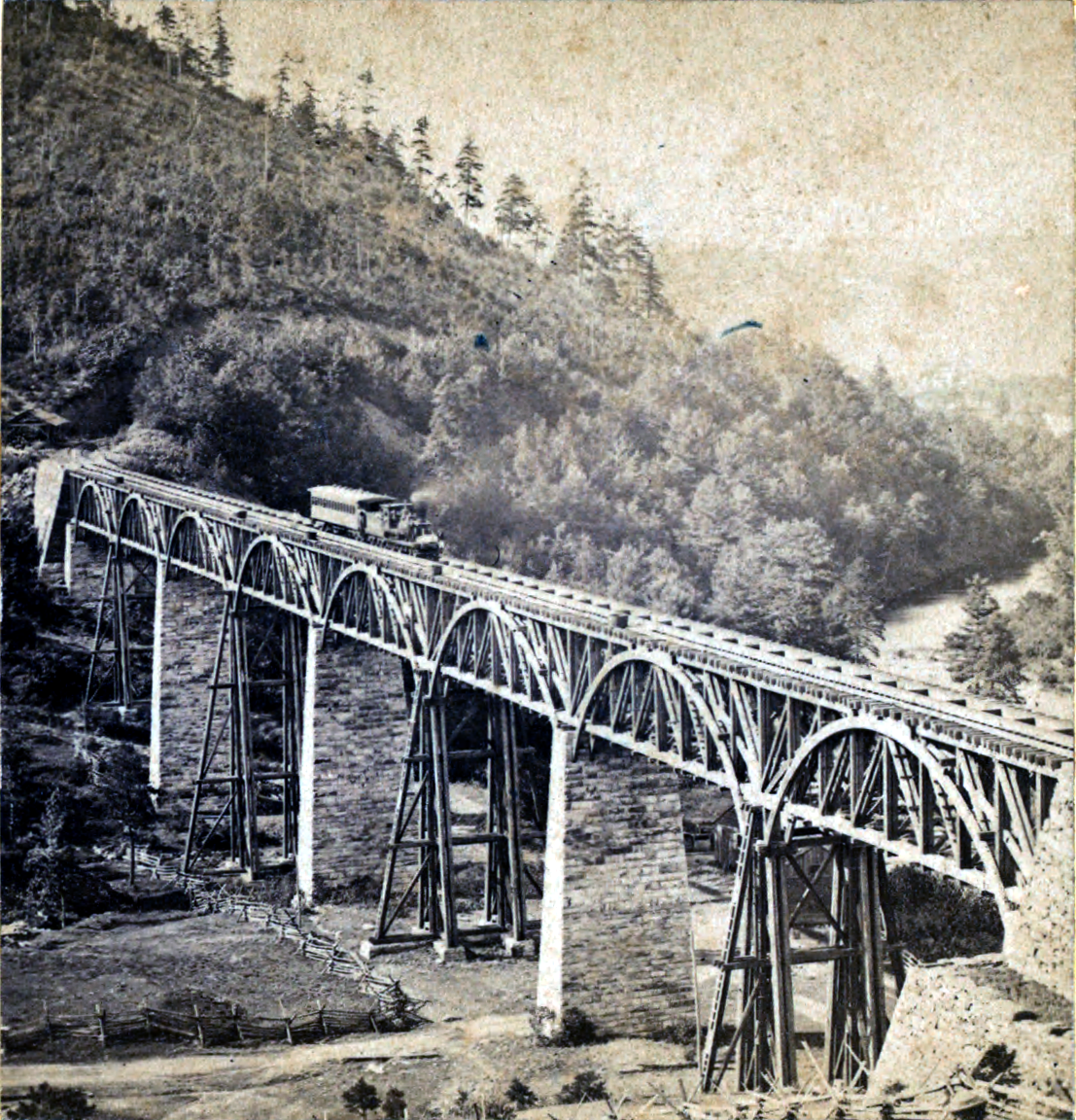 High Bridge at Mainville, Pennsylvania. Built by the Catawissa Railroad c. 1860s. Photo cropped, color adjusted from original stereoscopic image.